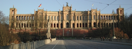 GNU-FDL (selbst fotographiert in 2002)